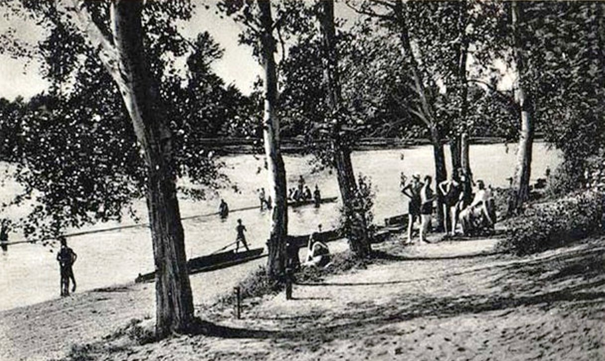 Göd, beach on the bank of the Danube between the two world wars